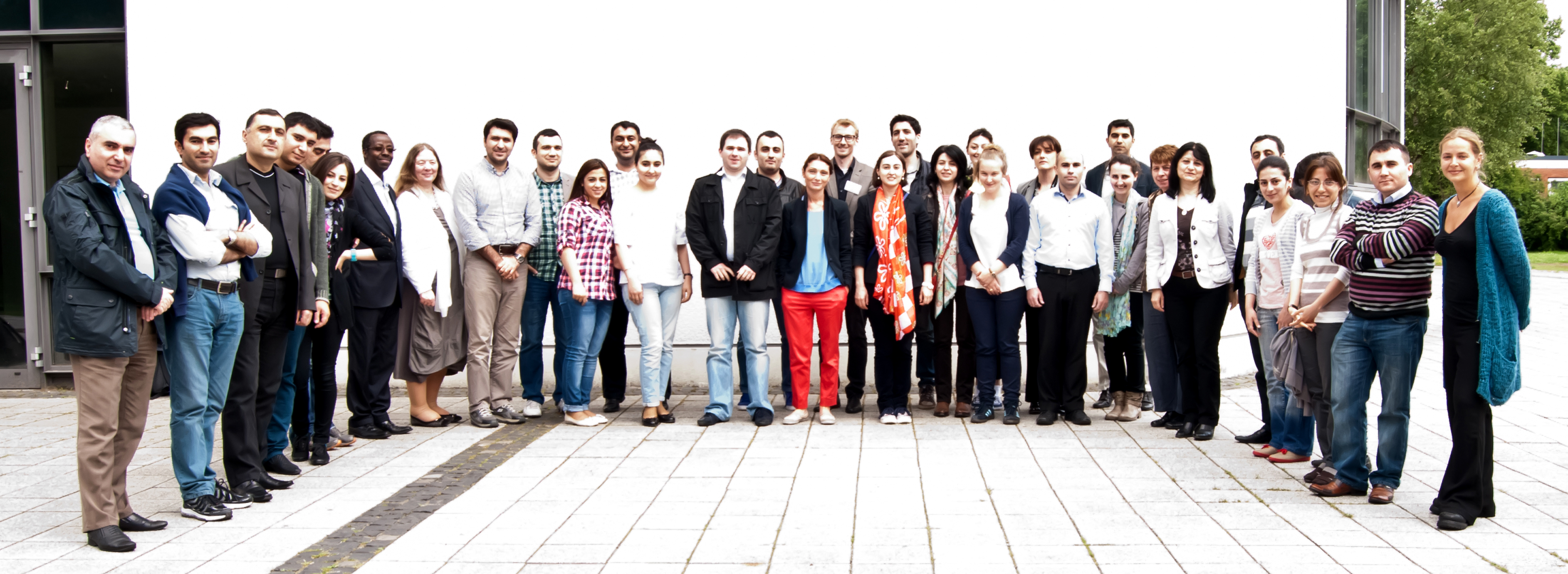 UNIMIG